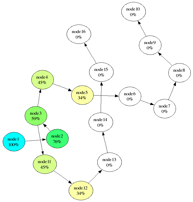 A spreading activation graph from a single origin with no cycles